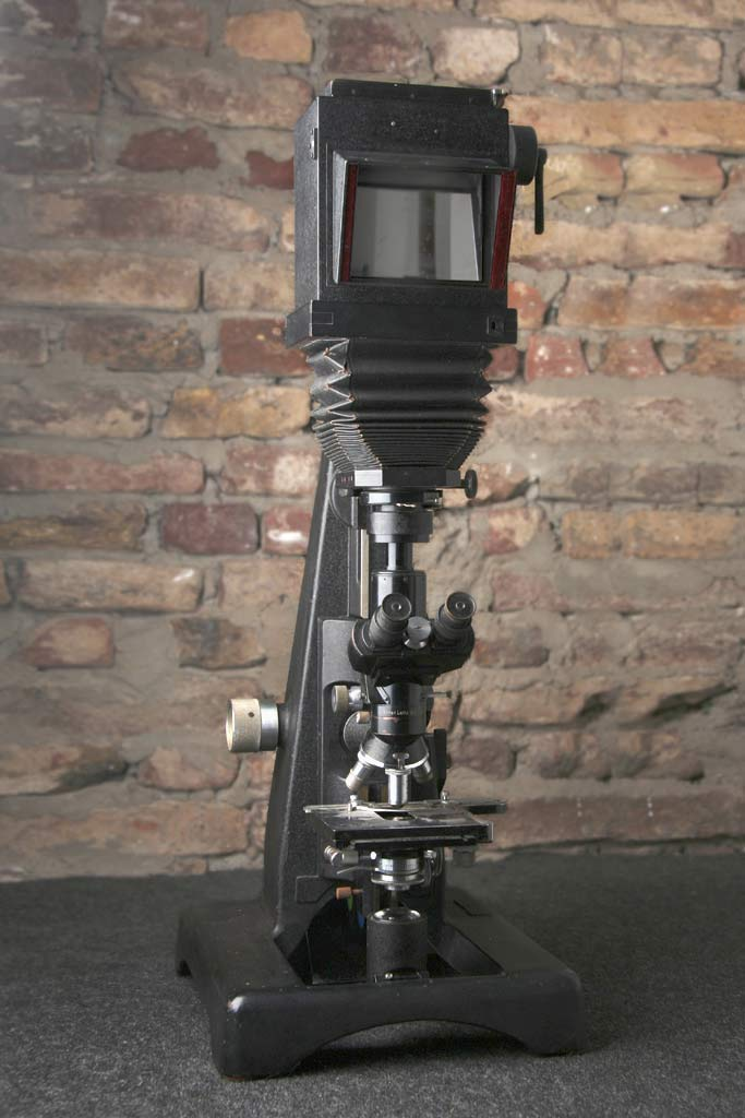 Leitz Panphot